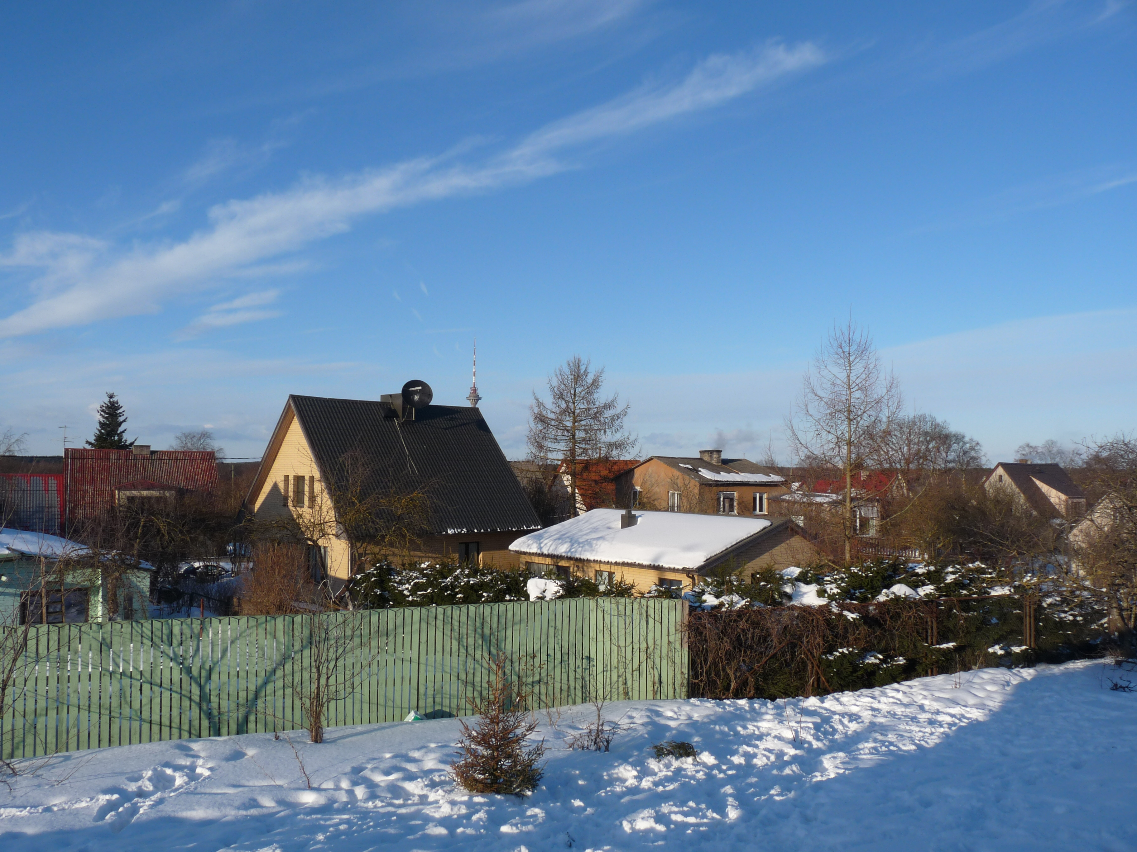 View to Kose from Narva highway